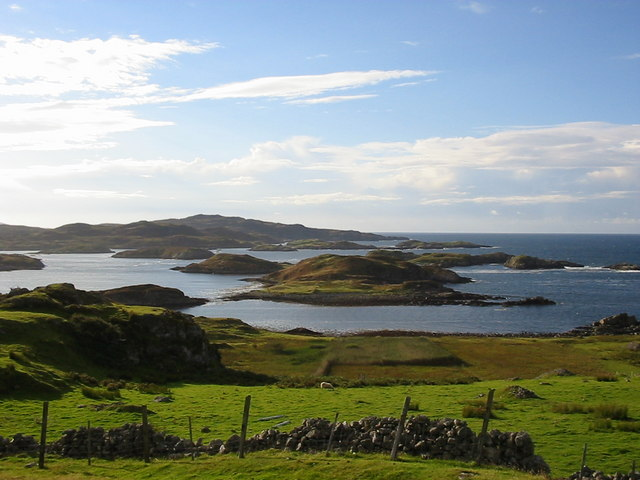 Islands West of Culkein Drumbeg Looking towards Oldany Island